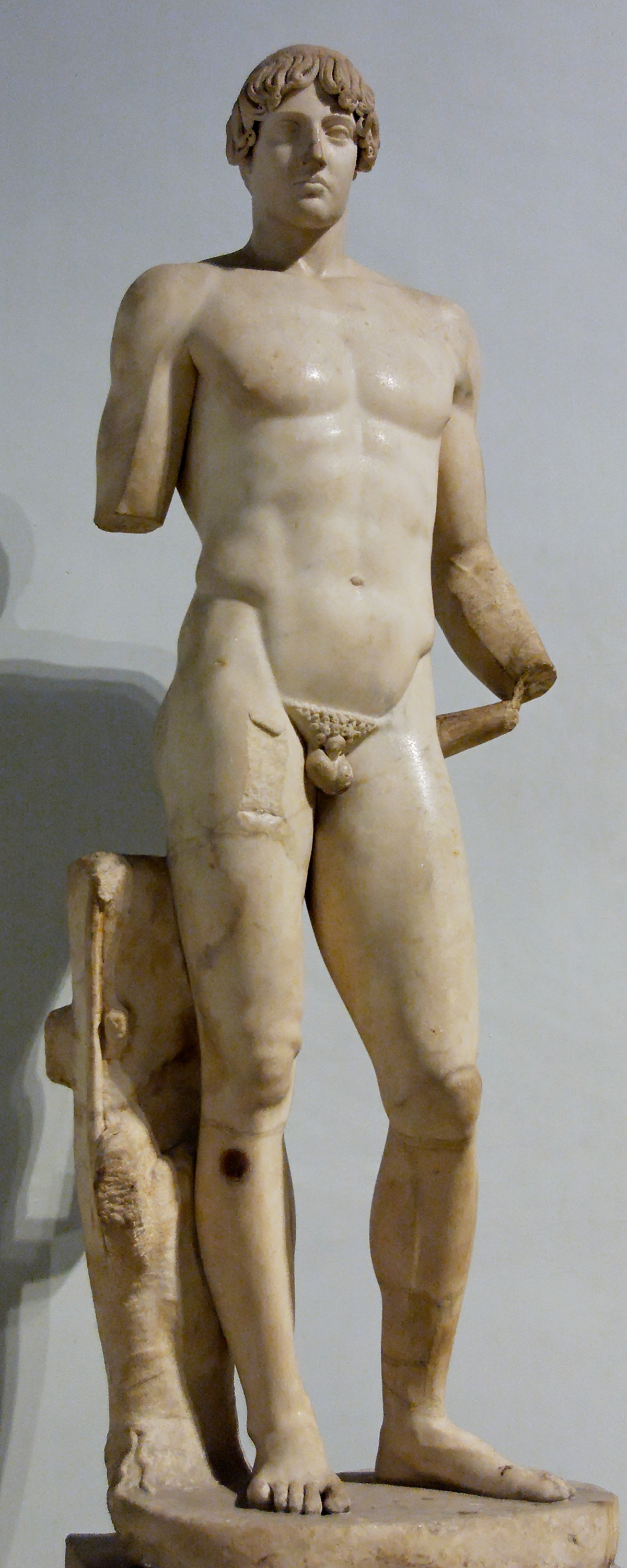 Naked youth: gor or athlete. Roman copy after a Greek Classical original.